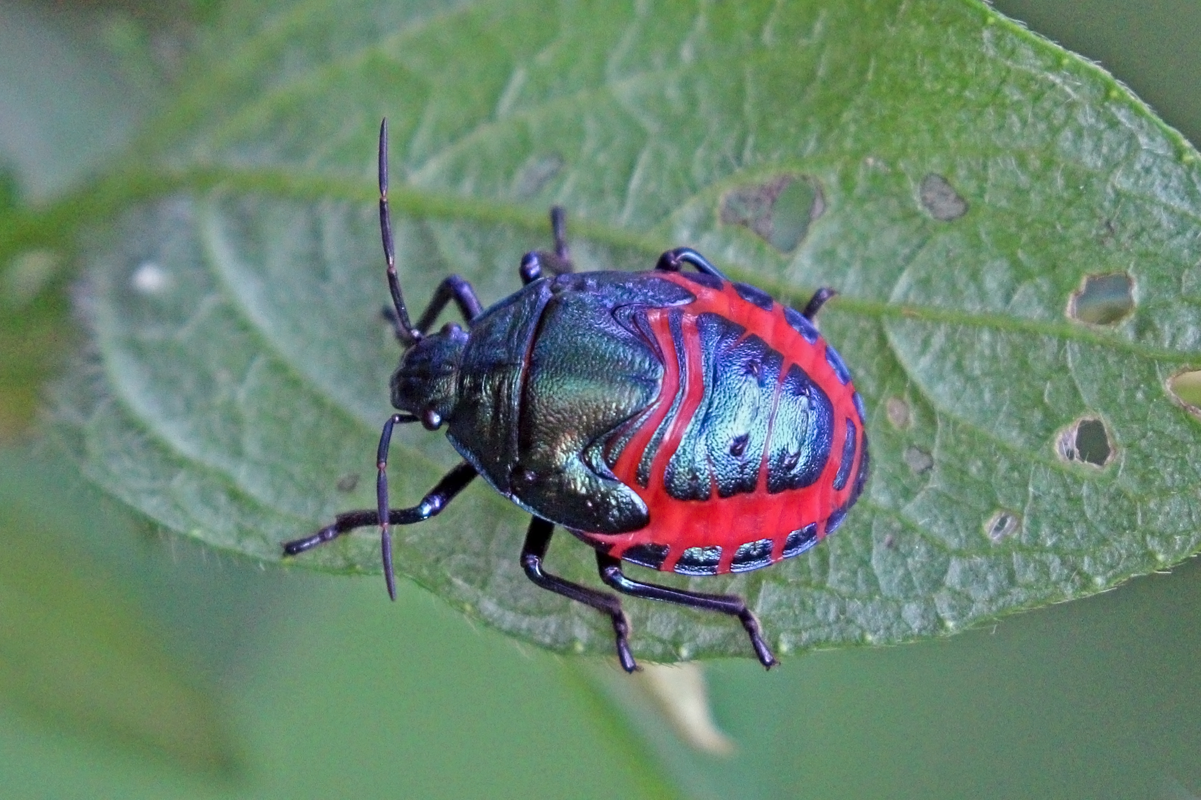 Shield-backed bug (Graptocoris aulicus) nymph, Kihingani Wetland, Uganda